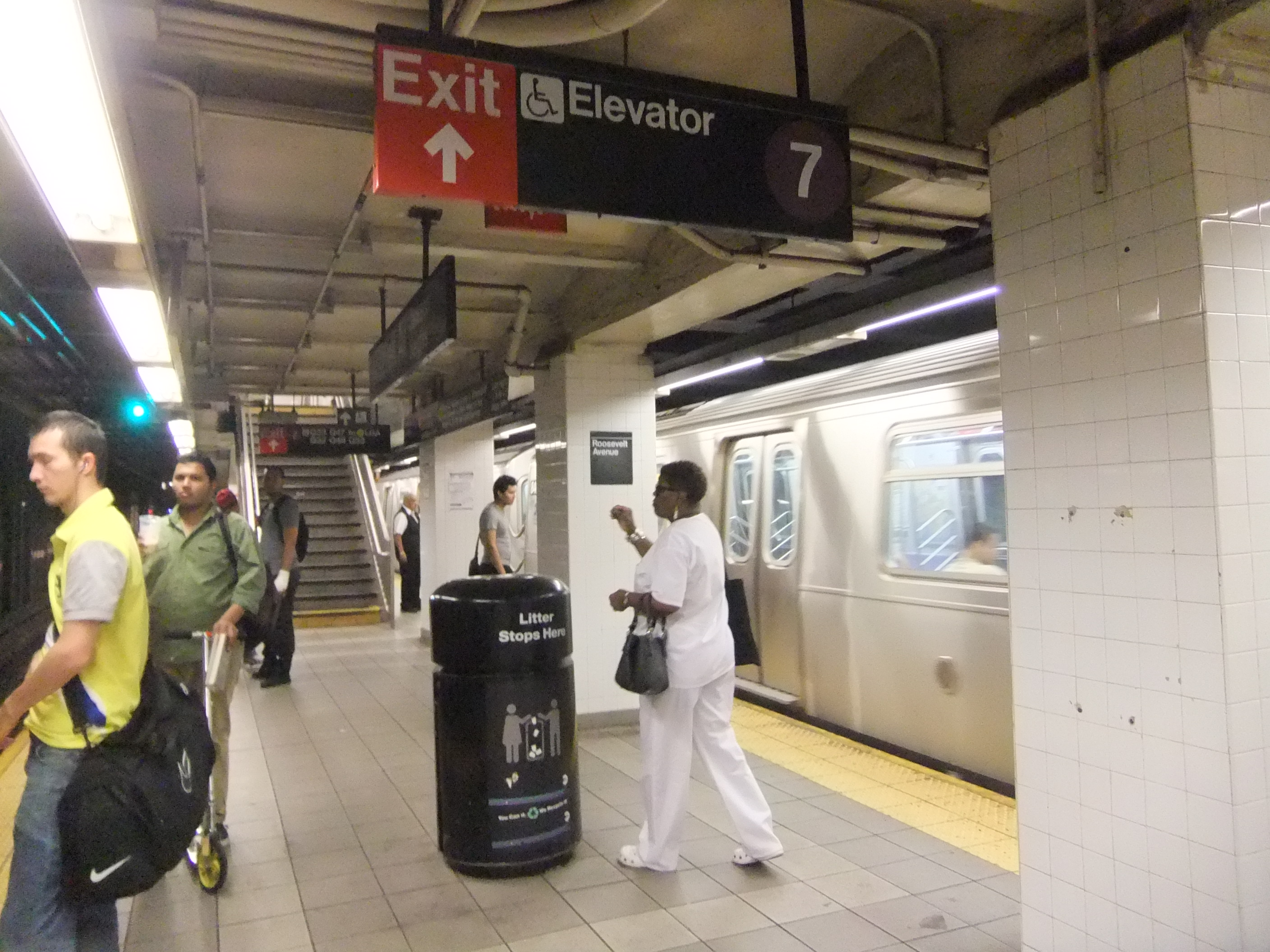 Manhattan bound platform at Jackson Heights - Roosevelt Avenue